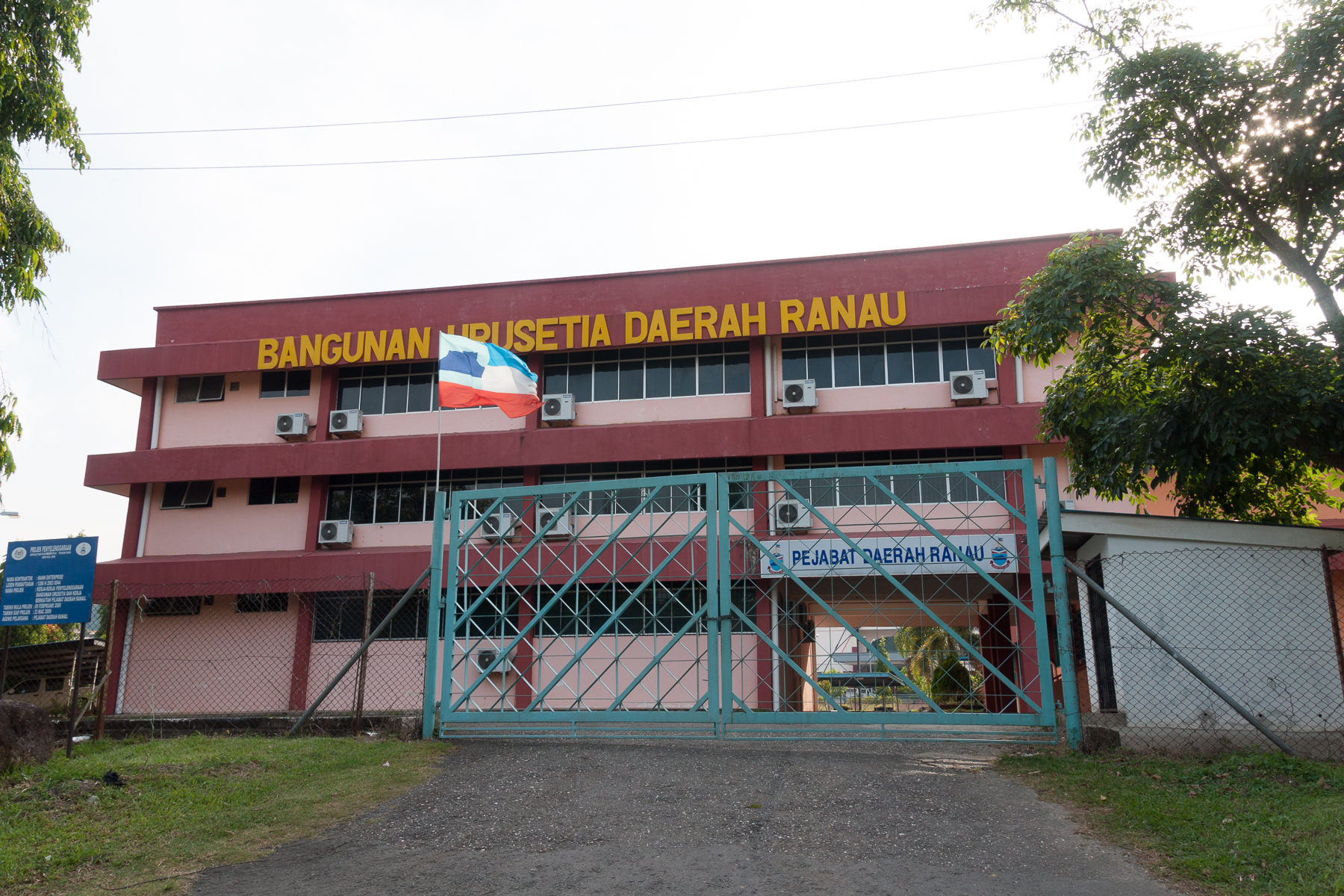 District Office Ranau (Pejabat Daerah Ranau)